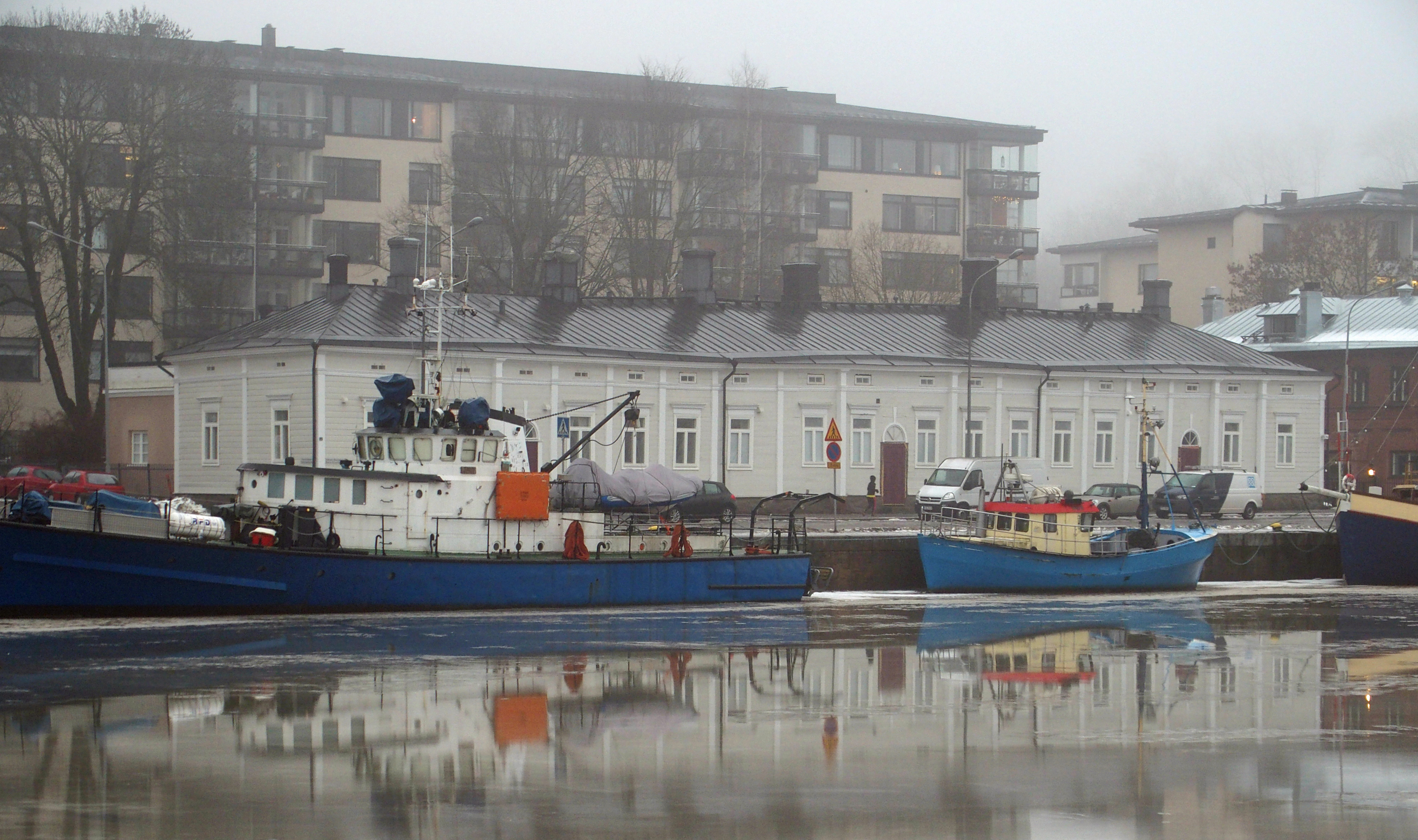 The former residence of shipyard owner William Crichton by the Aura river. The building also housed the offices of the shipyard. Originally from 1846, renovated by Gunnar Wahlroos (1890–1943).